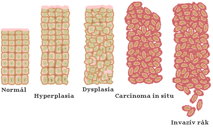 Cancer progression